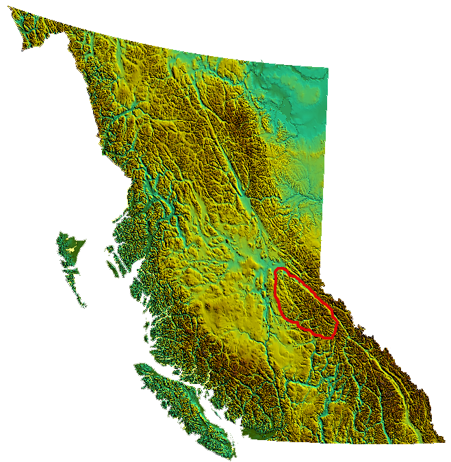 Adapted from BC-relief.png, which is in Wikipedia Commons. Line added by editor Skookum